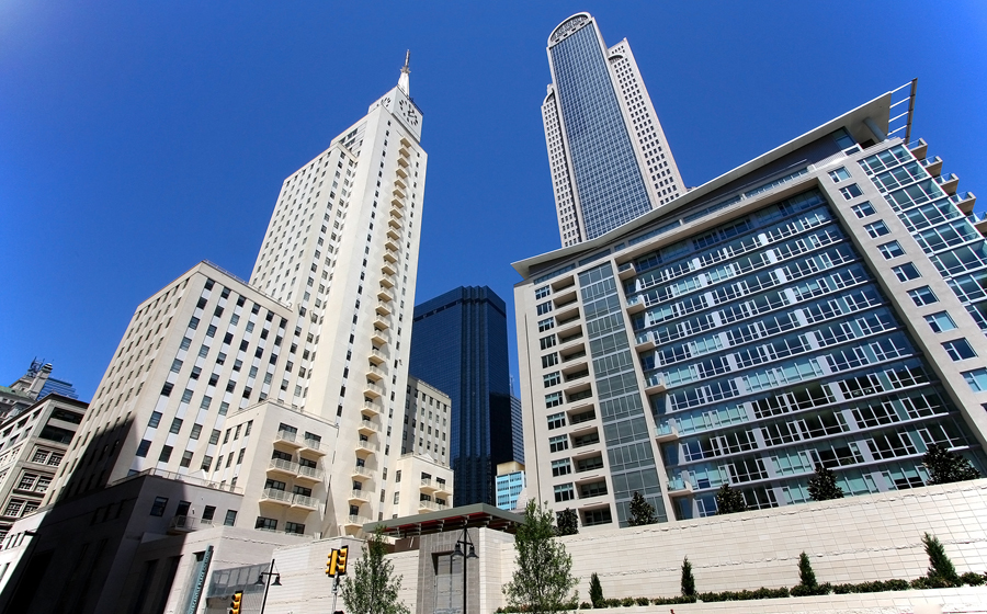 Exterior of Mercantile Place on Main